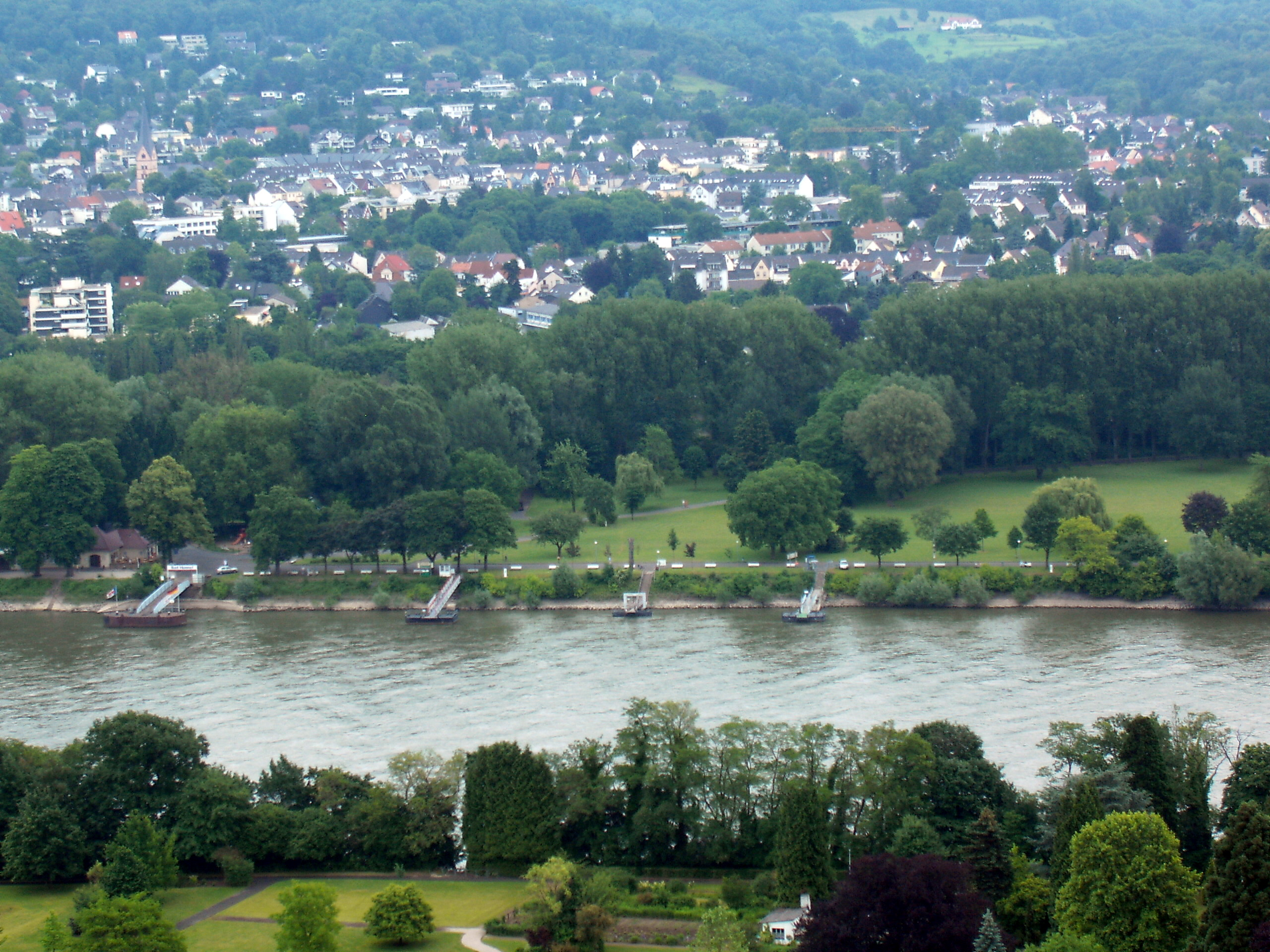 The Island Grafenwerth seen from the Rolandsbogen.